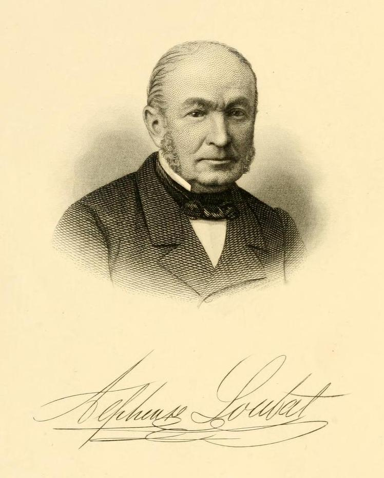 Alphonse Loubat, a New York merchant born in France, planted a large vineyard of vinifera vines in Brooklyn in the 1820s and published a book, in both French and English, called The American Vine-Dresser's Guide (1827). Interesting chiefly as a late memorial to the futile belief that vinifera would do well in the American East after two hundred years of unbroken failure, it was, for some inexplicable reason, reprinted in 1872, when its views had long been discredited. Pinney, Thomas. A History of Wine in America: From the Beginnings to Prohibition. Berkeley: University of California Press, 1989.